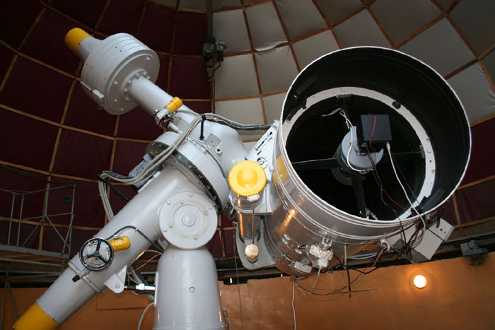 AZT-8 telescope